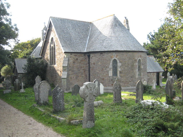 St Stephen's parish church, Treleigh, Cornwall, seen from the east